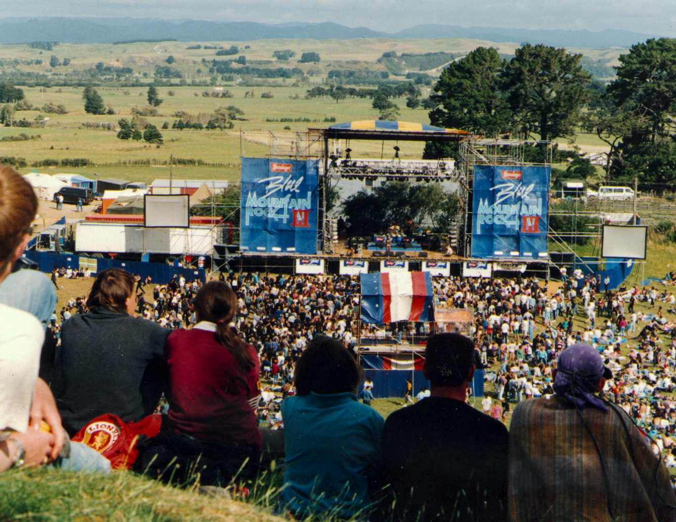 Mountainrock3.JPG - photo taken and uploaded by Paul Moss, Photographer, Artist, Paul Moss Photographer Artist NZ